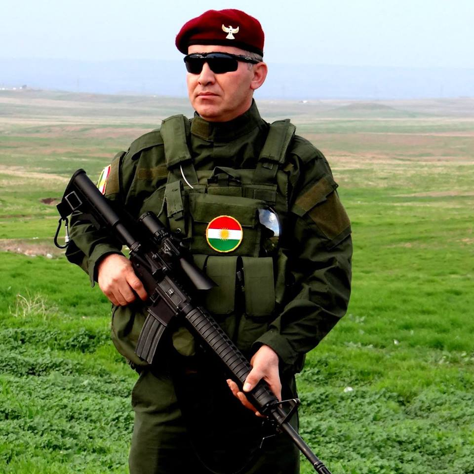 Peshmerga soldier with his modified M16